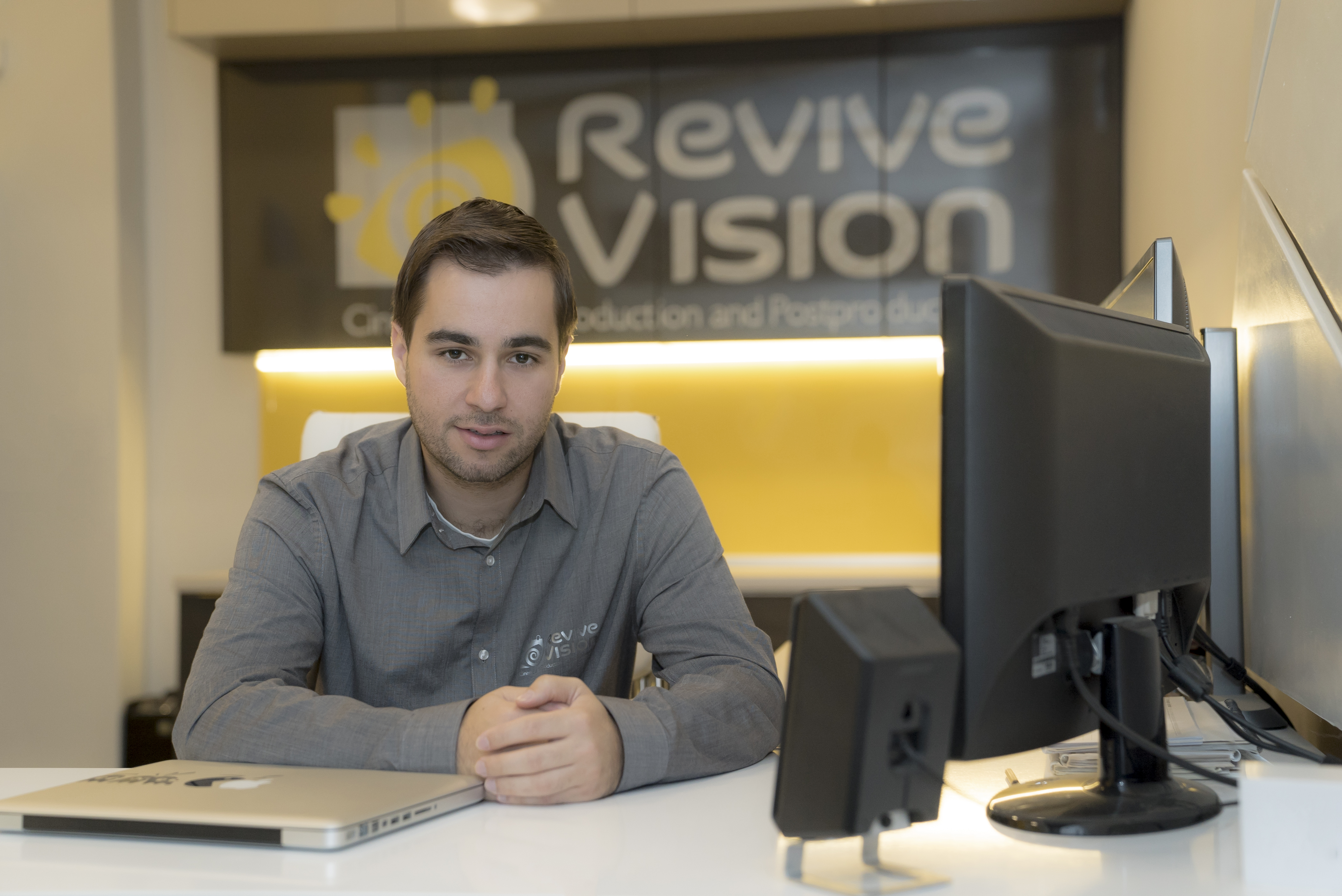 AndreyHadjivasilev RVoffice